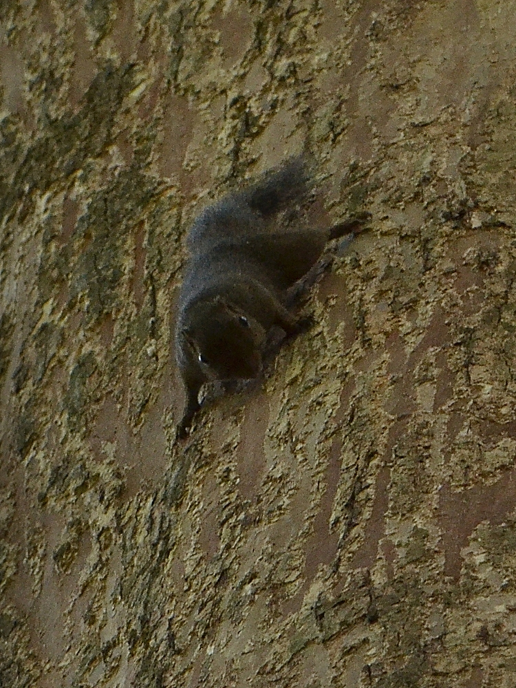 Celebes Dwarf Squirrel (Prosciurillus murinus) at Tangkoko Nature Reserve, North SulawesiBahasa Indonesia: Bajing kerdil sulawesi (Prosciurillus murinus) di Cagar Alam Tangkoko, Sulawesi Utara